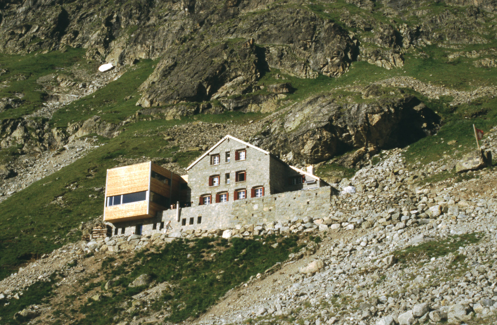 Tschierva Hut